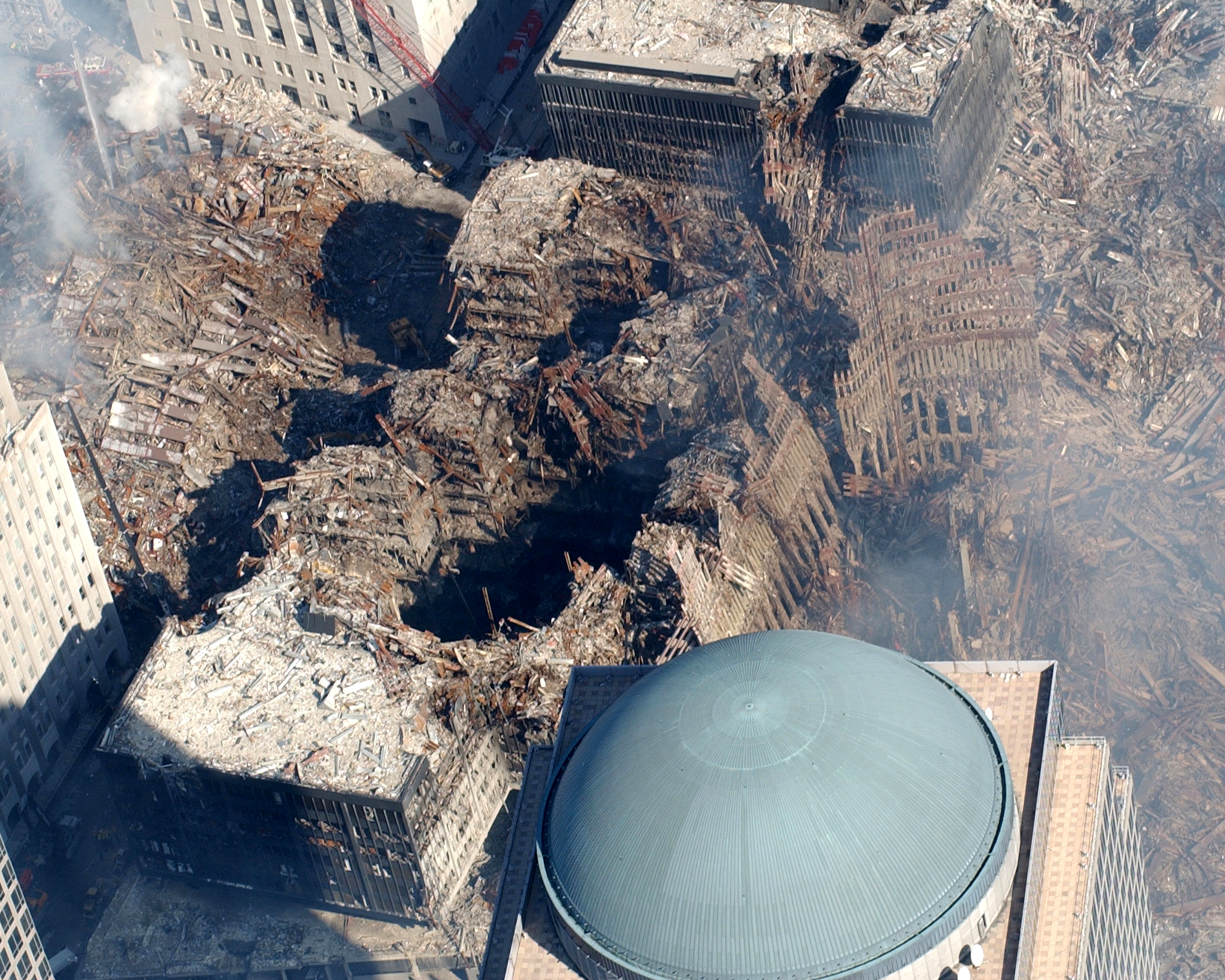 010919-N-5471P-515 New York, New York (Sep. 19, 2001) -- "Ground Zero" at the World Trade Center disaster. U.S. Navy photo by Photographer's Mate 2nd Class Aaron Peterson. (RELEASED)